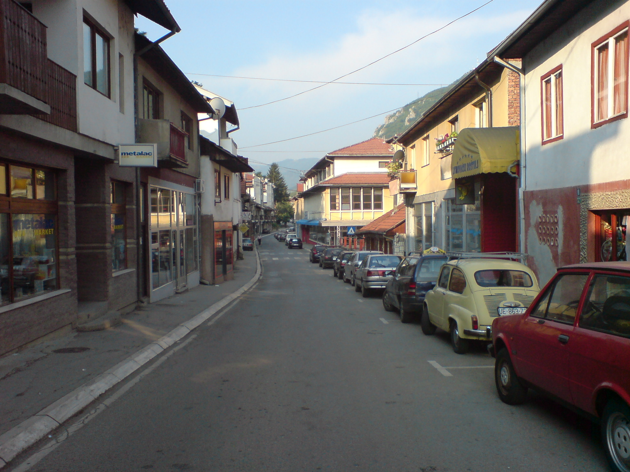 Old Town - Prijepolje, Serbia.